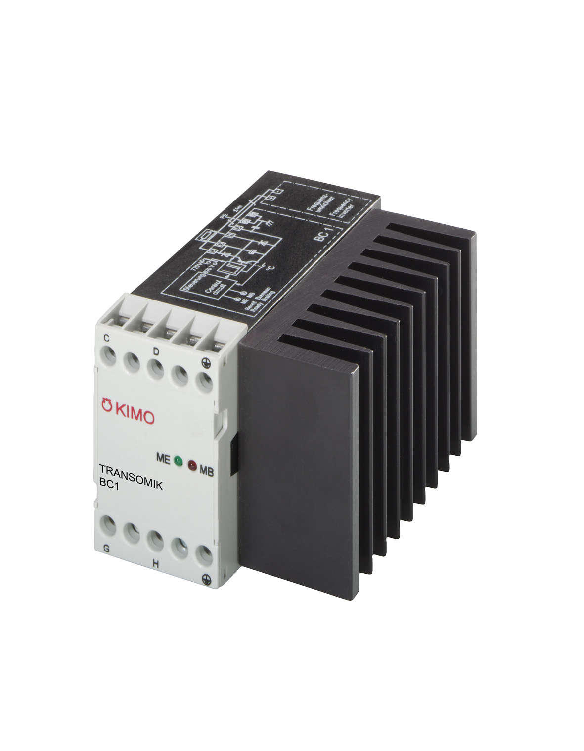 Small braking chopper.